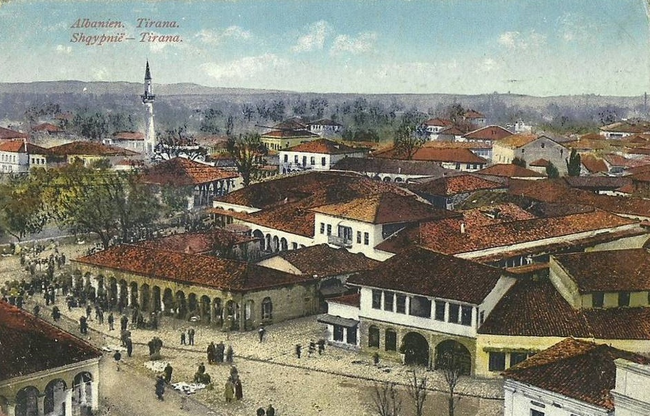 The capital of Albania, Tirana, before the year 1914.